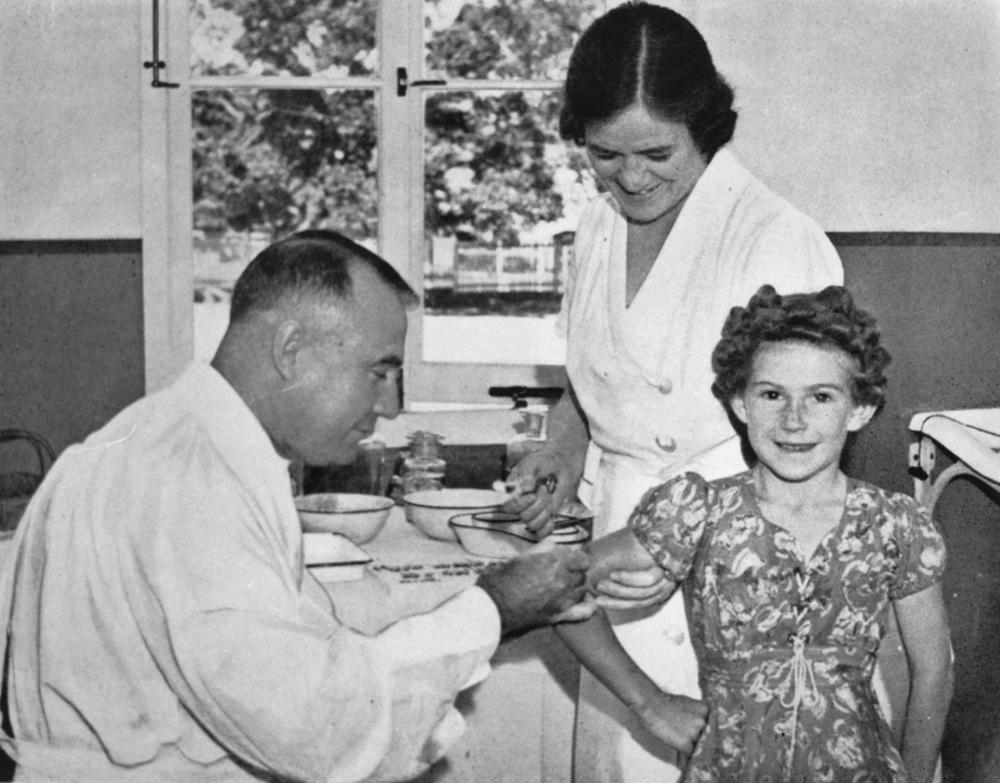 Young girl being vaccinated at Brisbane, 1940 Immunisation against Diphtheria. The City Medical Officer is immunising one of th 6,816 children treated during the year. (Description supplied with photograph).